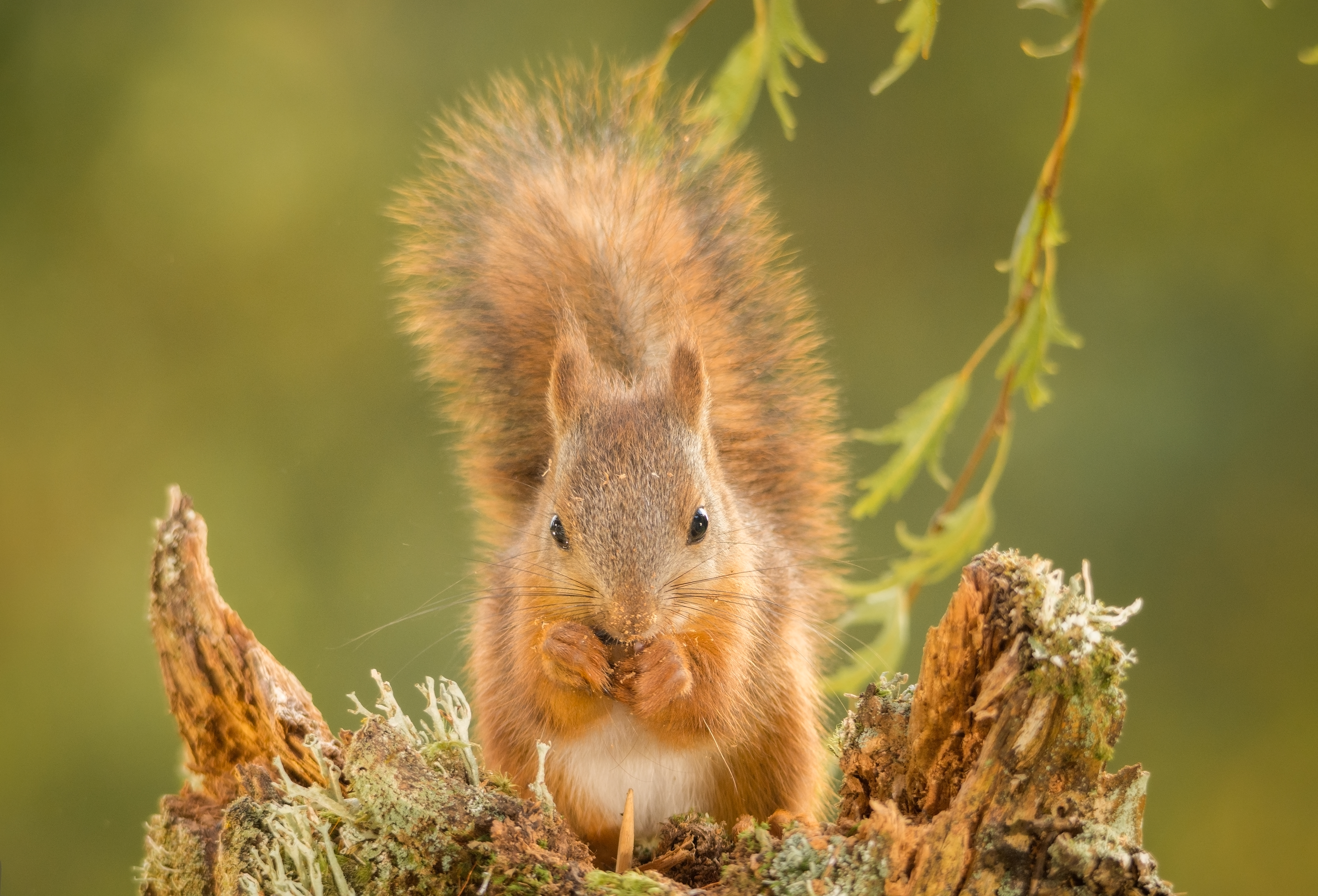 close up of young red squirrel standing looking in lens